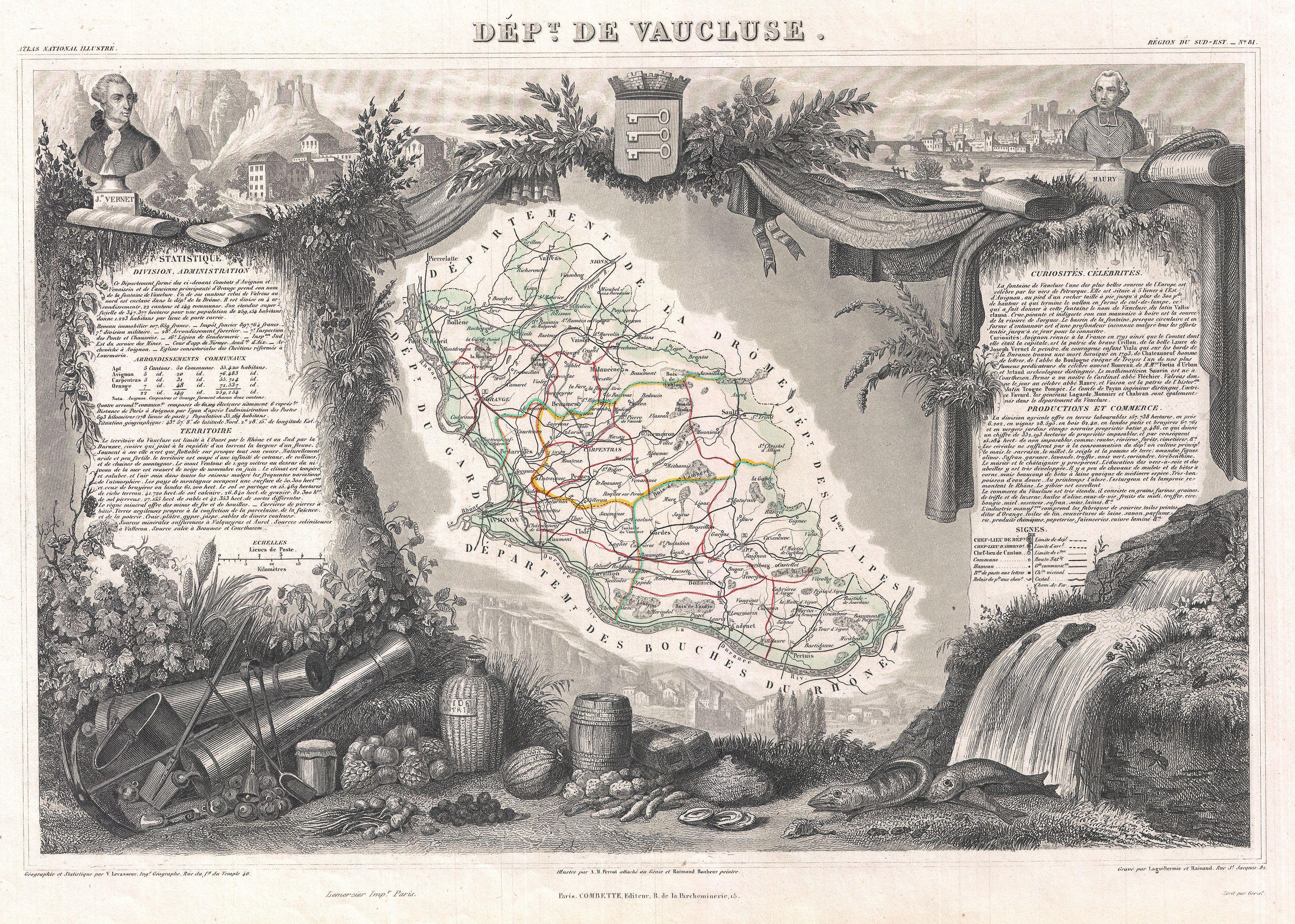 This is a fascinating 1852 map of the French department of Vaucluse, France. Vaucluse is the center of wine production in the southern Rhone. Some of the smartest wines in France can be found here. There is also a very strong movement towards the adoption of organic and biodynamic viticulture and natural wine making. The area includes the Cotes du Rhone, Luberon, and Gigondas wine appellations, just to name a few. The map proper is surrounded by elaborate decorative engravings designed to illustrate both the natural beauty and trade richness of the land. There is a short textual history of the regions depicted on both the left and right sides of the map. Published by V. Levasseur in the 1852 edition of his Atlas National de la France Illustree.